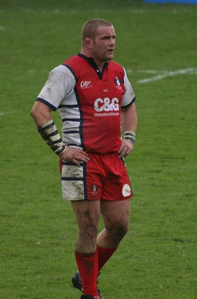 Phil Vickery (rugby player) in Gloucester v Saracens 26 november 2005.